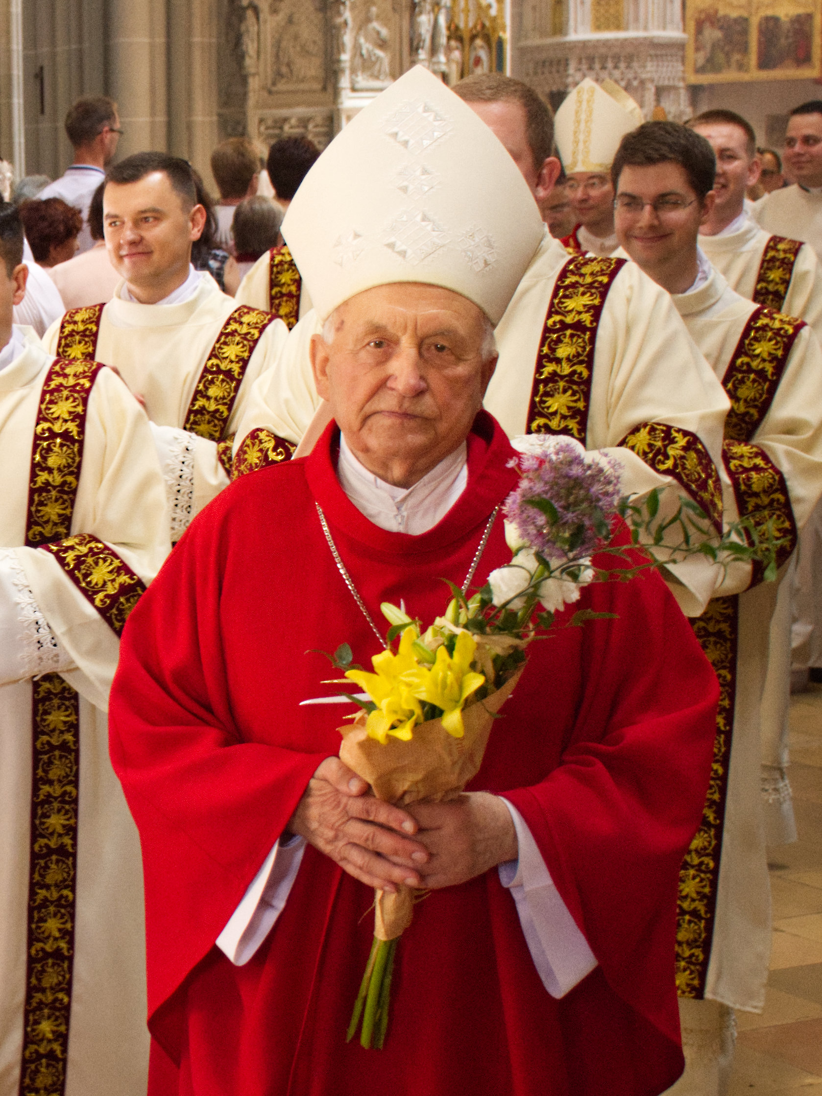 Mons. Alojz Tkáč, archbishop emeritus of Košice, at deaconic ordination of new deacons in the Cathedral of saint Elisabeth, Košice, Slovakia on 14 June 2019